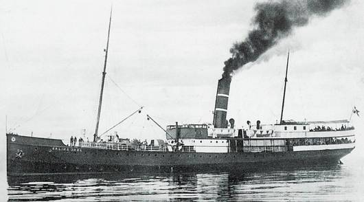 Norwegian coastal express ship (Hurtigruten) SS Erling Jarl, built in 1895.